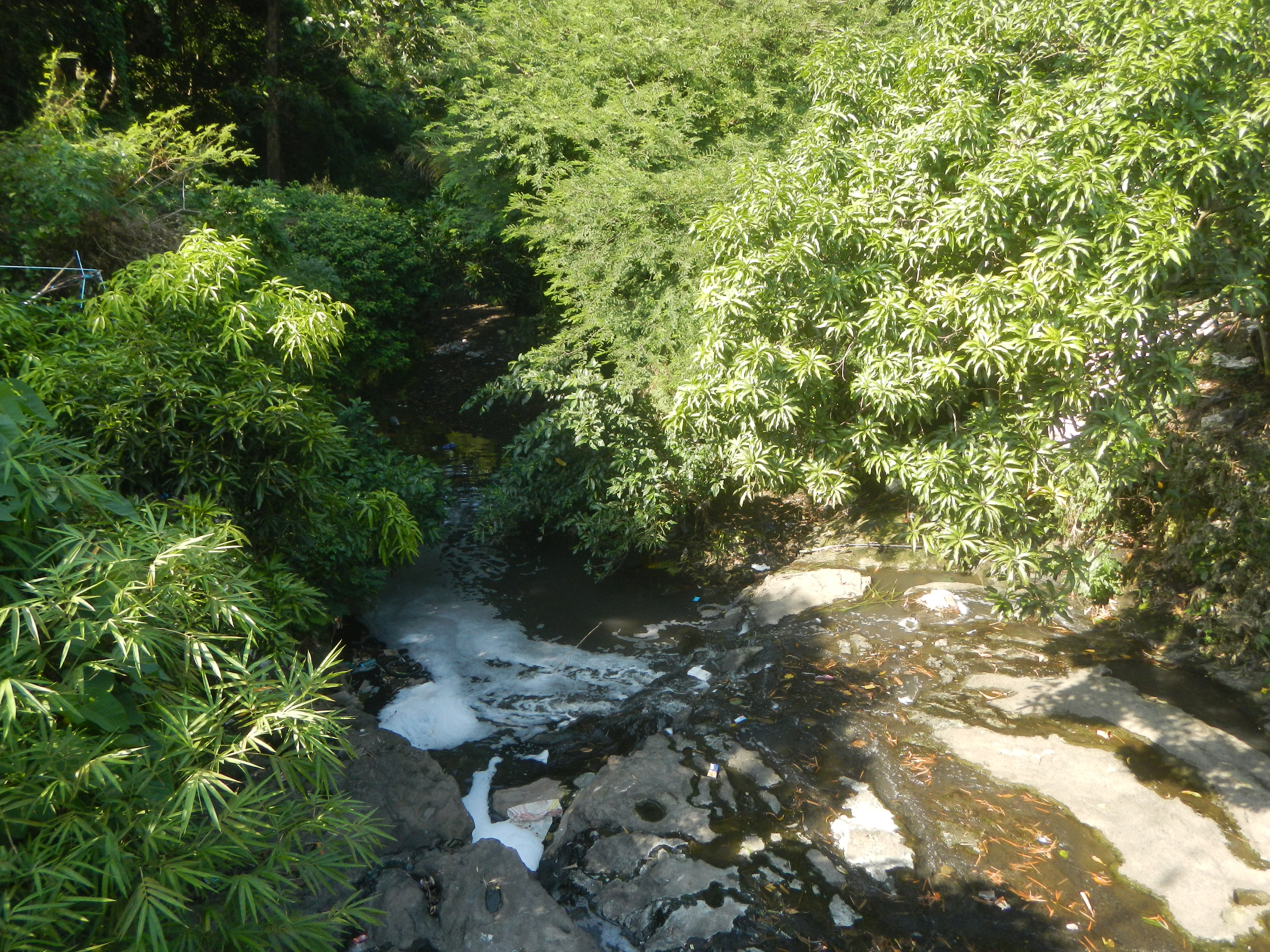 San Antonio 14°20'53"N 121°1'54"E Barangay San Antonio, San Pedro San Pedro, Laguna Magsaysay Road (San Antonio, City of San Pedro, Laguna) San Pedro River, Laguna City of (Tunasan) Muntinlupa Boundary Sign - San Antonio Bridge, City of San Pedro, Laguna Victoria Homes Subdivision (Tunasan, Muntinlupa City) Teresa Orsini Home - Hospitaller Sisters of Mercy (Victoria Homes Subdivision, Tunasan, Muntinlupa City) (Note: Judge Florentino Floro, the owner, to repeat, Donor Florentino Floro of all these photos hereby donate gratuitously, freely and unconditionally all these photos to and for Wikimedia Commons, exclusively, for public use of the public domain, and again without any condition whatsoever).